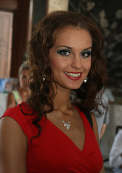 Estonian Kadi Sizask in Miss World 2007, Sanya, China